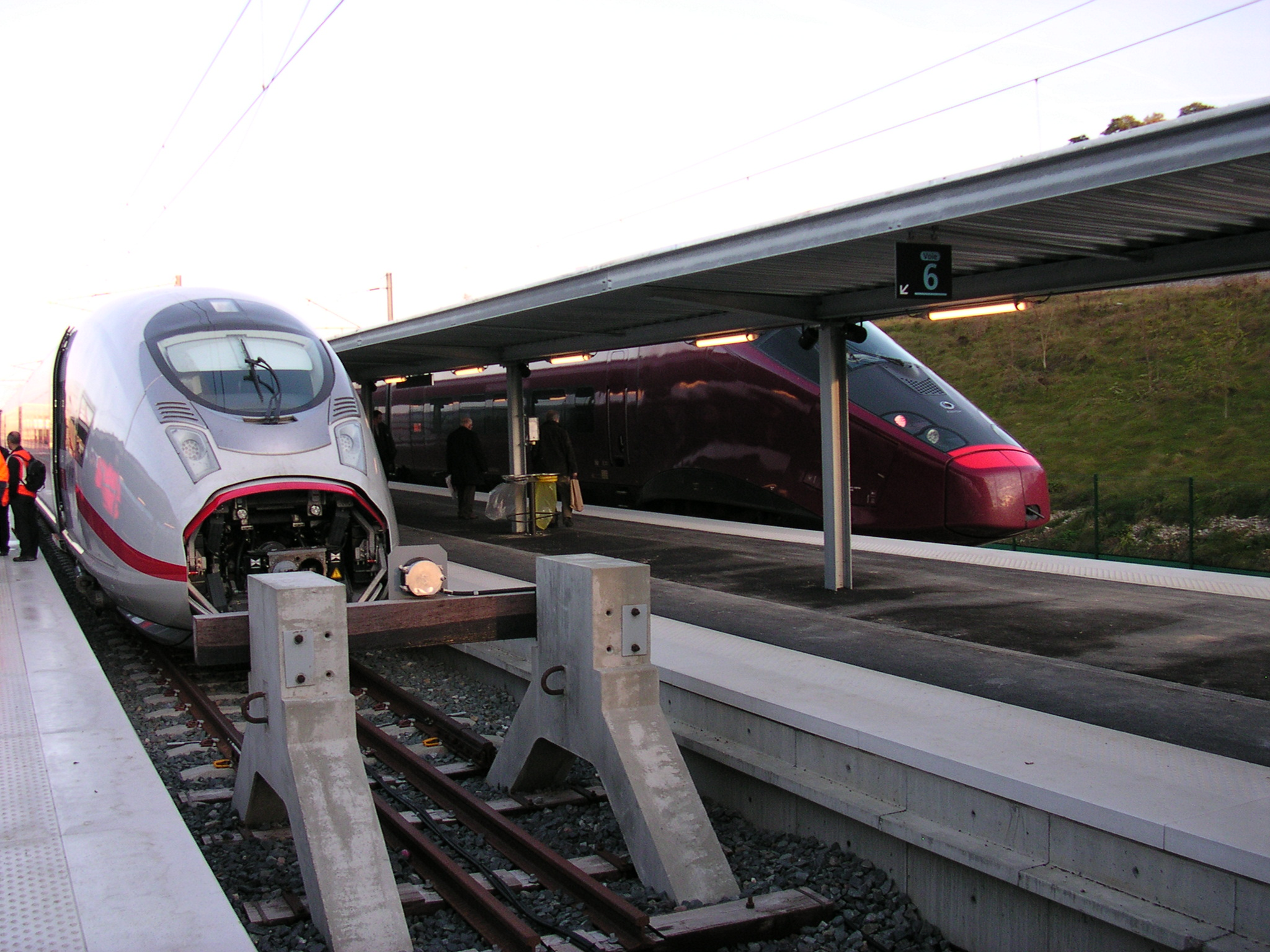 On the left the German high-speed ICE type DB 407 or Velaro D train , on the right the Alstom AGV high-speed train, in red NTV .Italo livery, parked at the Besançon Franche-Comté TGV railway station during station's inaugural.